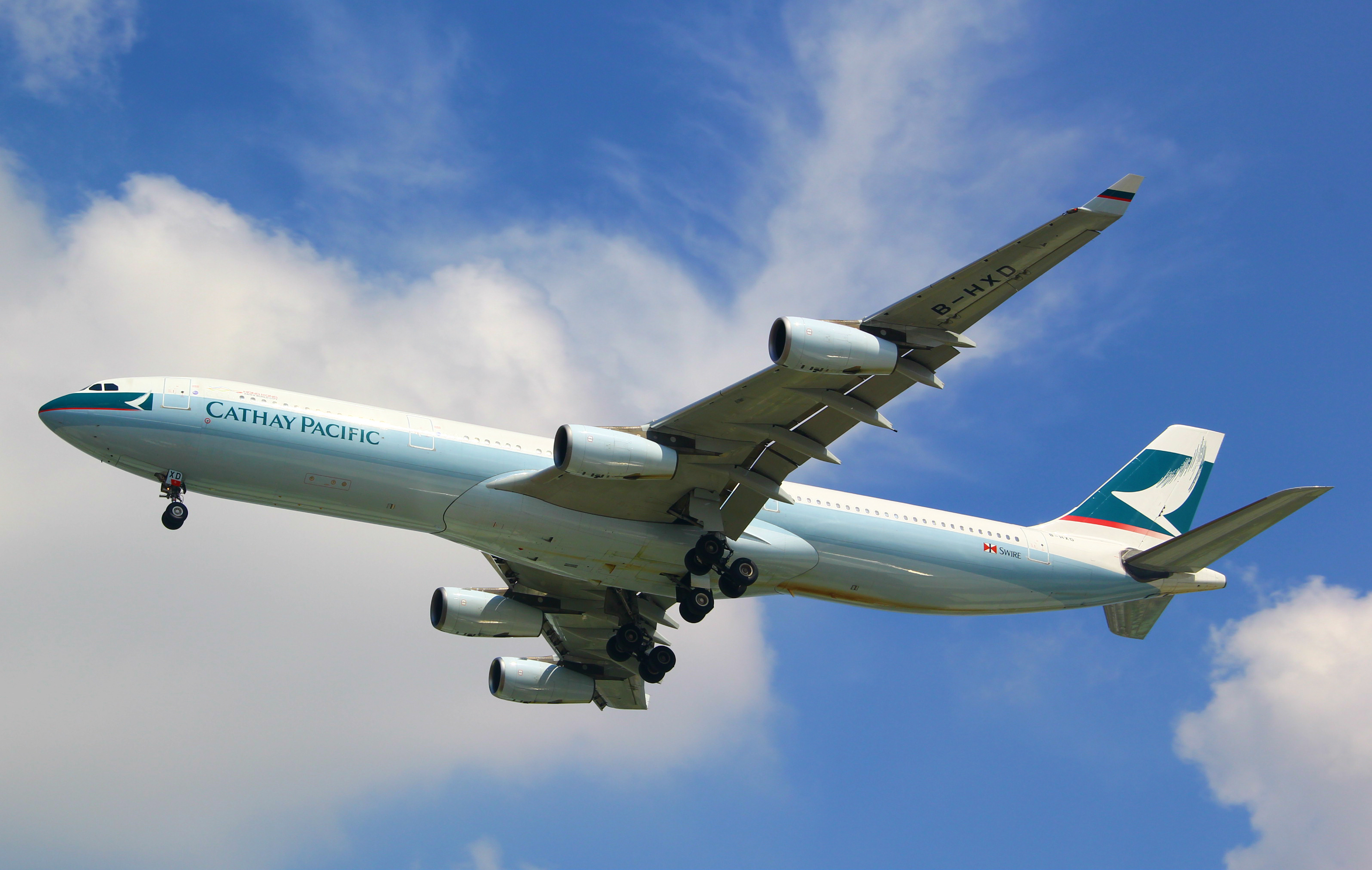 B-HXD (Airbus A340-313X) from Cathay Pacific